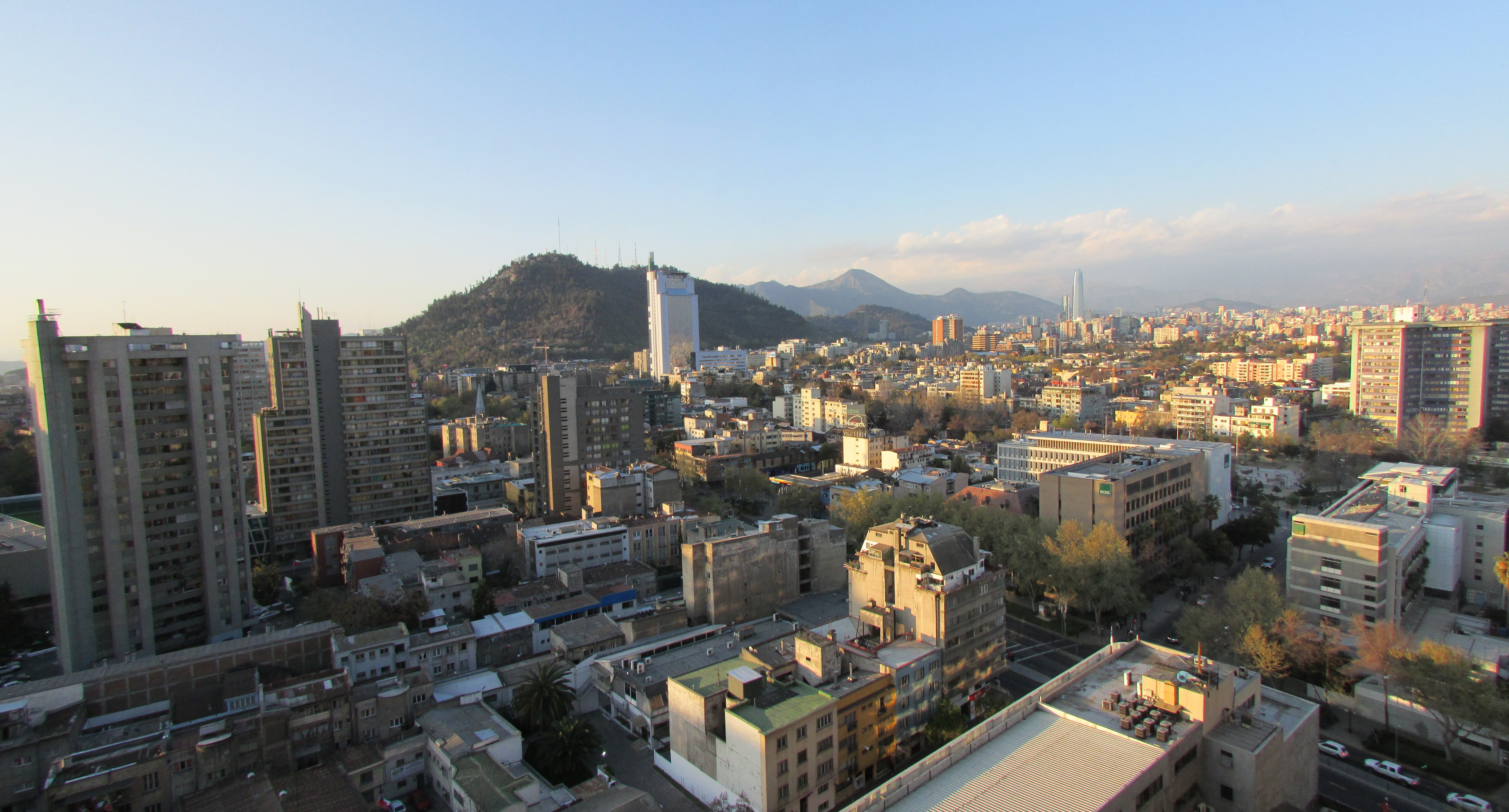 Skyline of Santiago with San Cristóbal hill at the back, view to the northeast of the city.